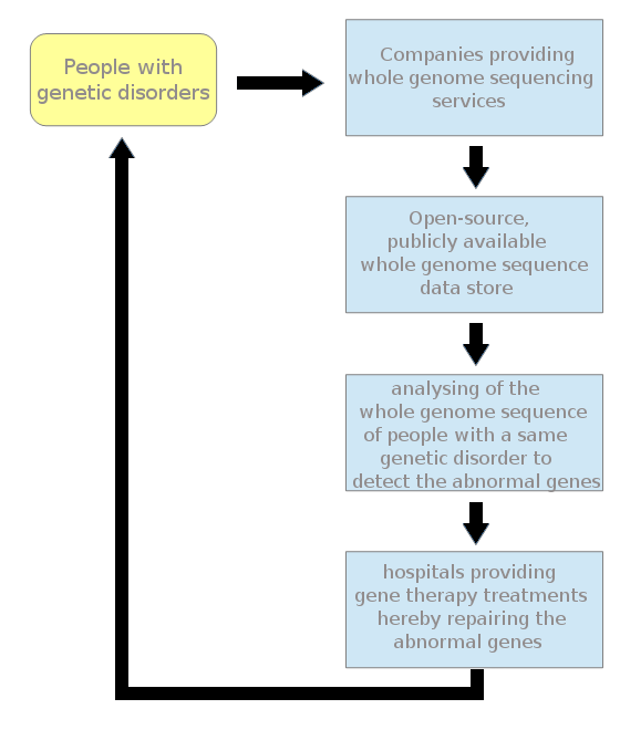 A schematic showing how people with genetic disorders benefit from having their whole genome sequence mapped out. For having the DNA mapped out, see here. An examples of an open source WGS databases is Organisations that conduct research on the DNA code of people with disorders include i.e. the National Human Genome Research Institute, , Personal Genome Project, Altruist Endeavor, Global Alliance for Genomics and Health, ... For info on gene therapy, see here